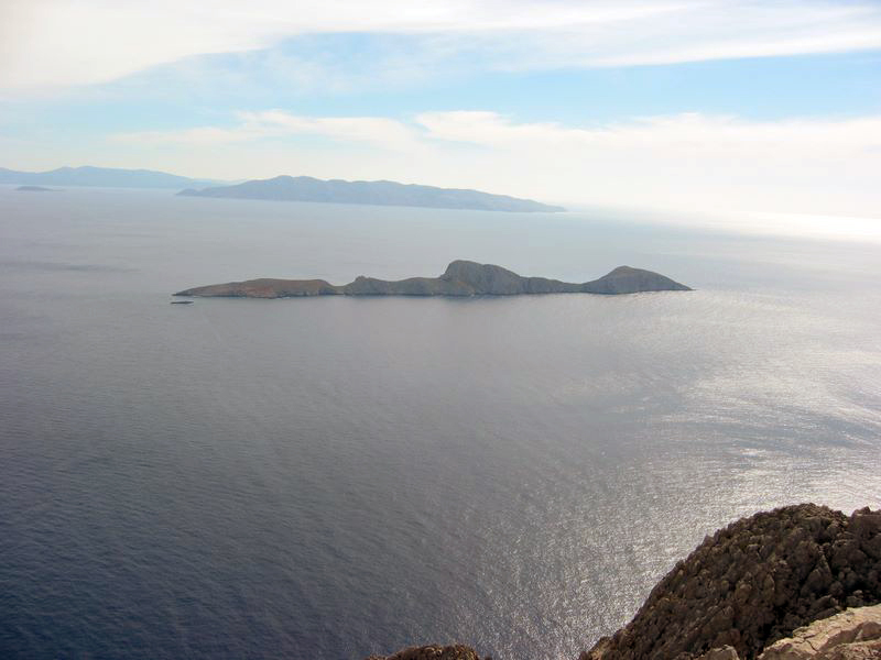 greek island Anditilos/Askina (perspective from the main island Tilos)